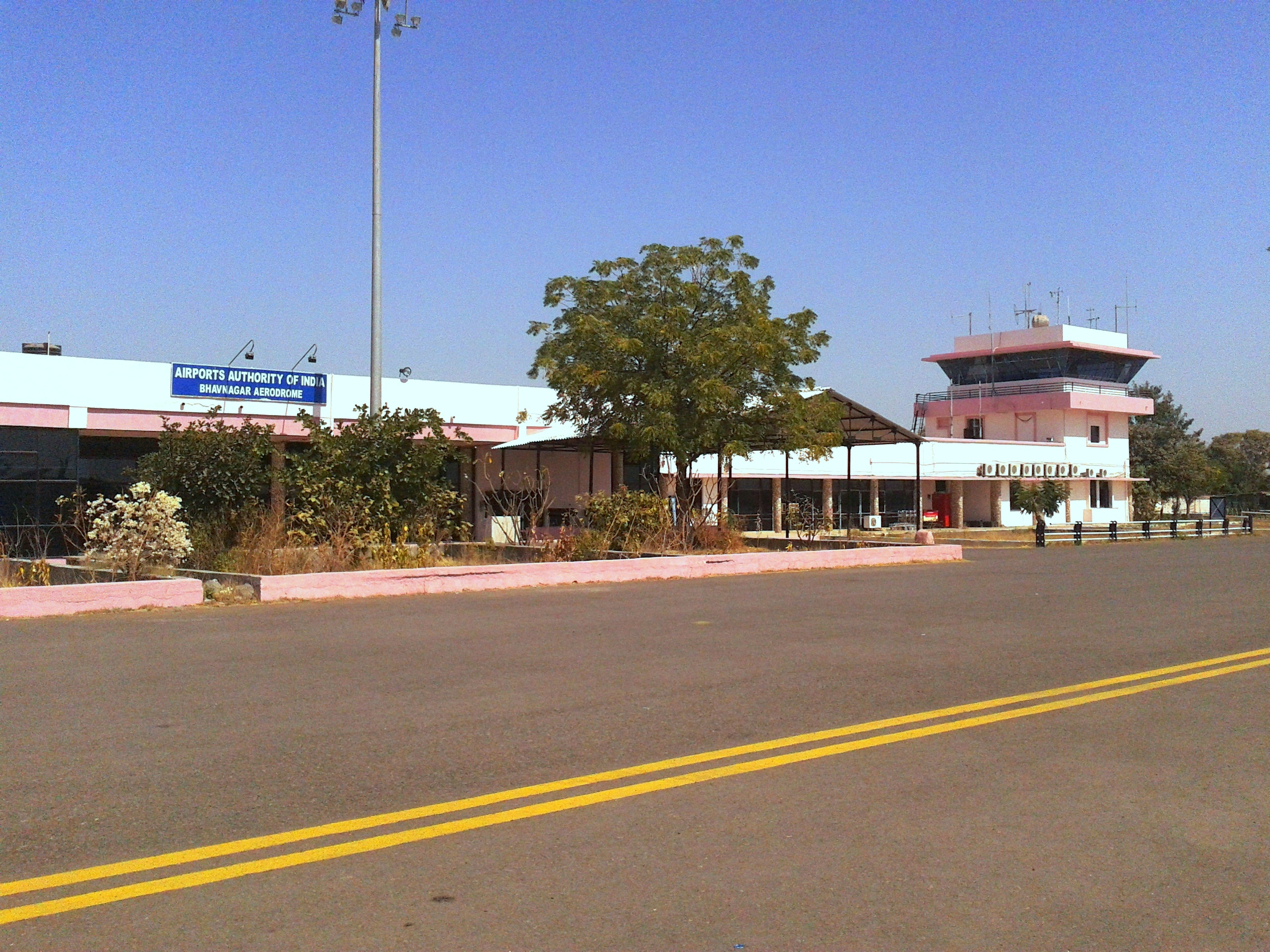 View of Bhavnagar airport Terminal and ATC building from the Tarmac